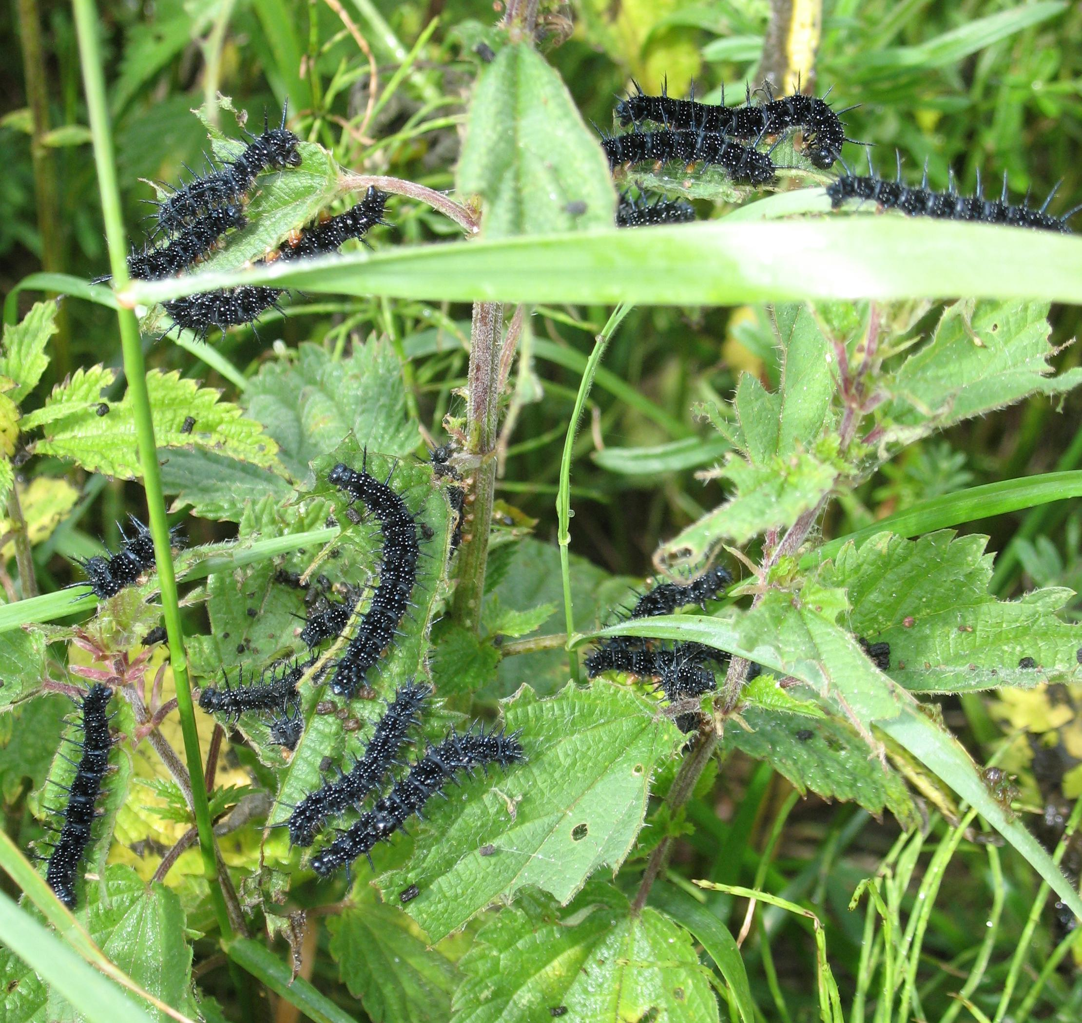 Peacock caterpillars on nettles near Schnega-Proitze in Lower Saxony, Germany